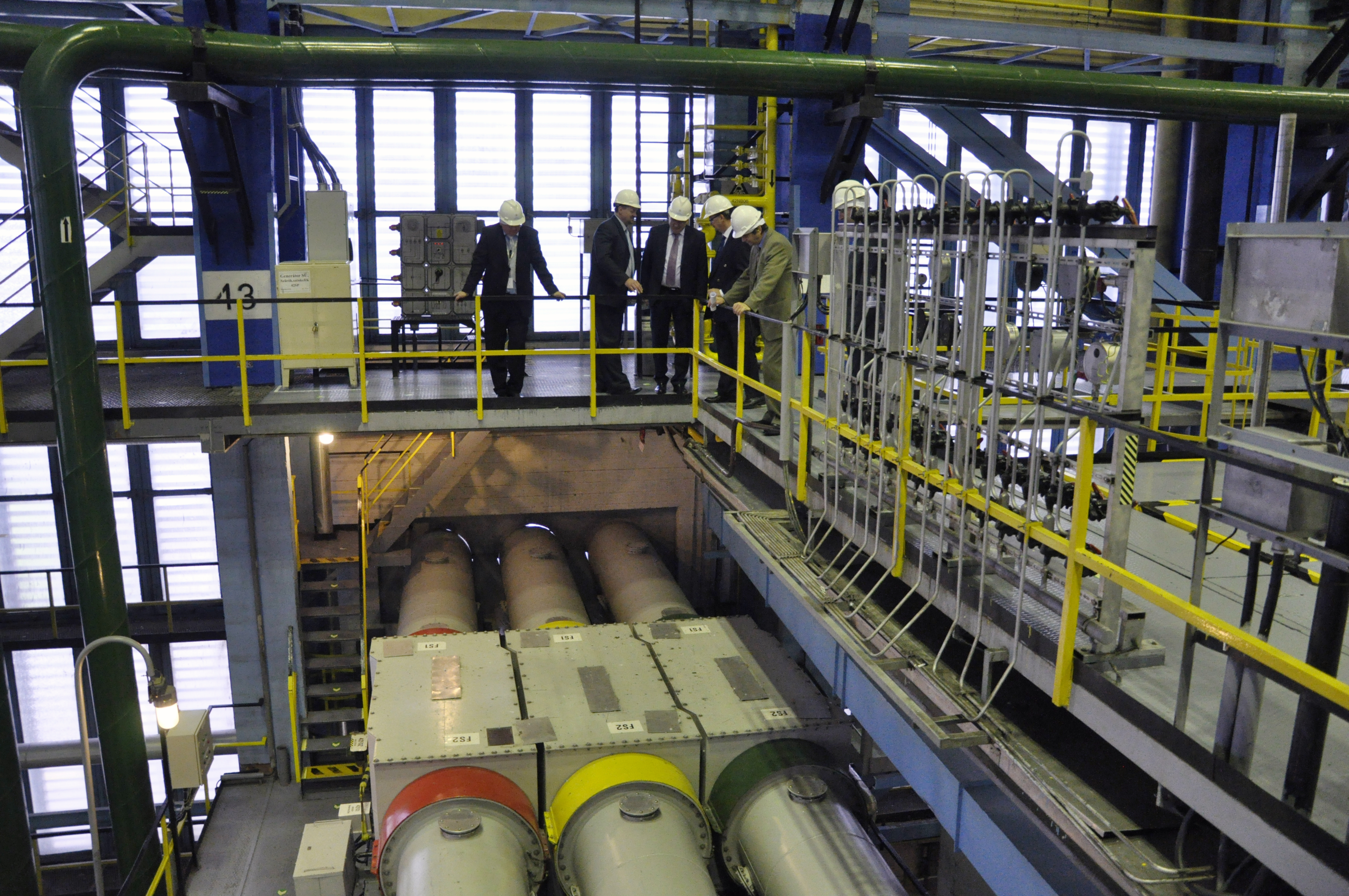 PAKS Nuclear Power Plant